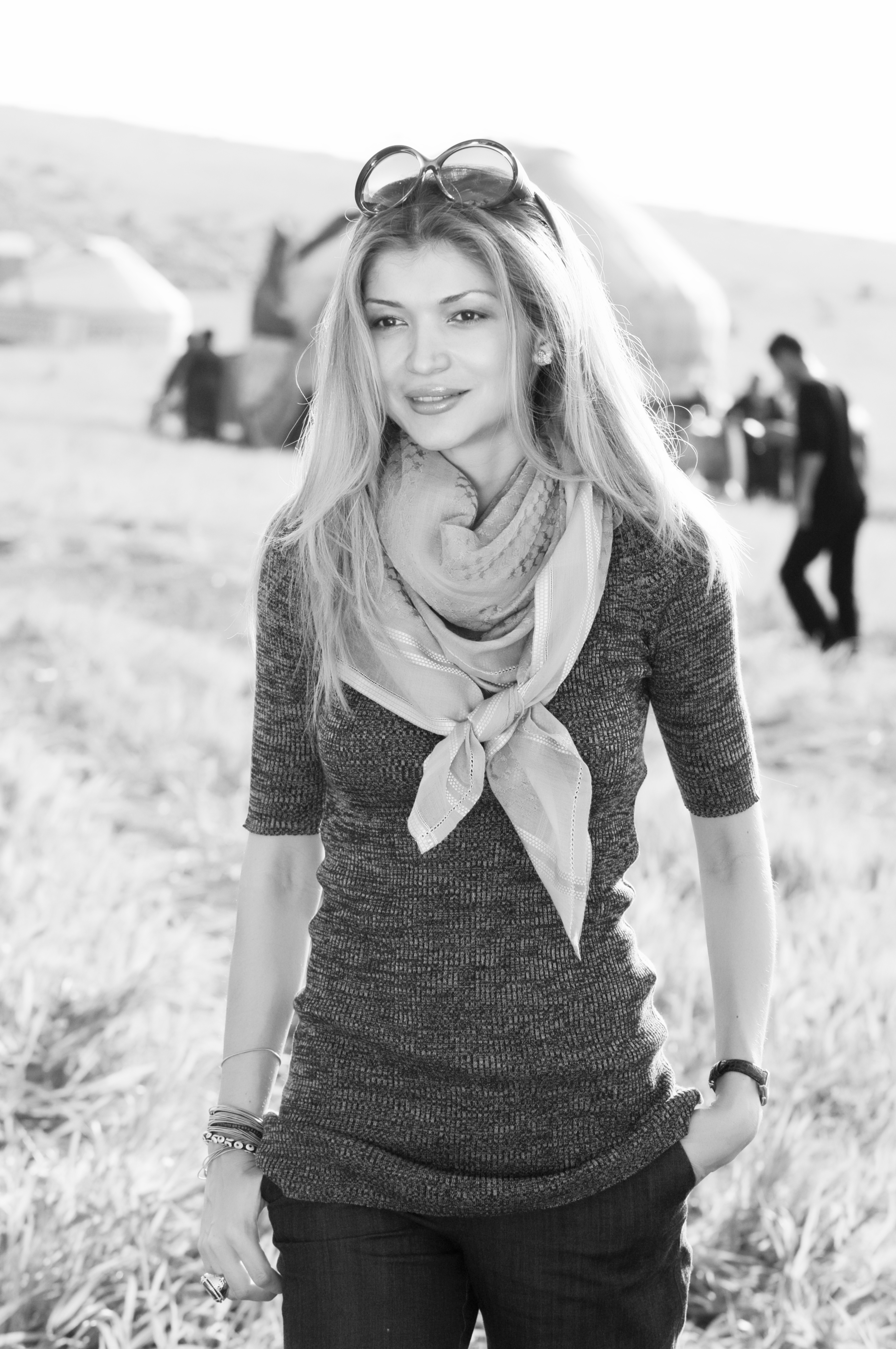 Gulnara Karimova.